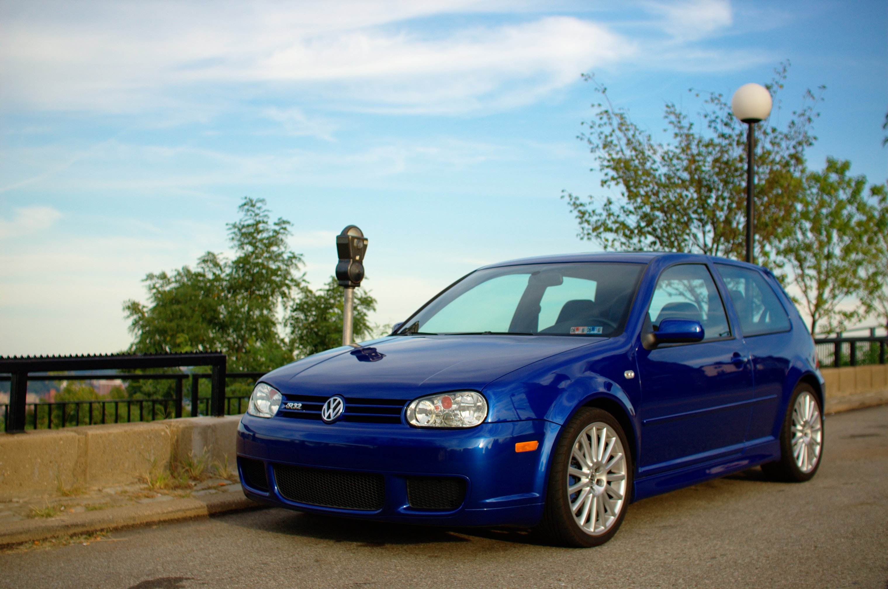 VW Golf R32